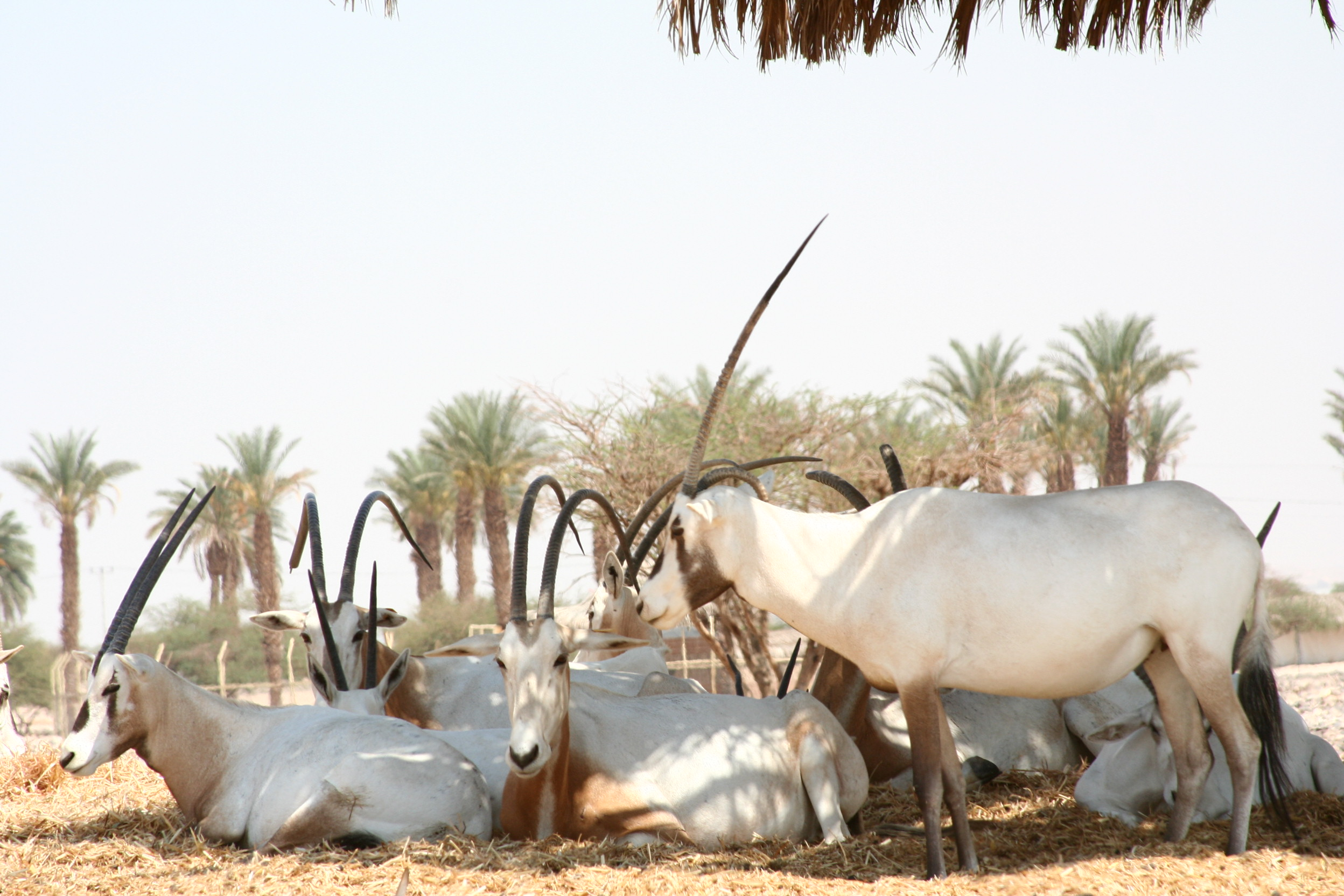 Arabian Orix, Antelope Ranch, Israel